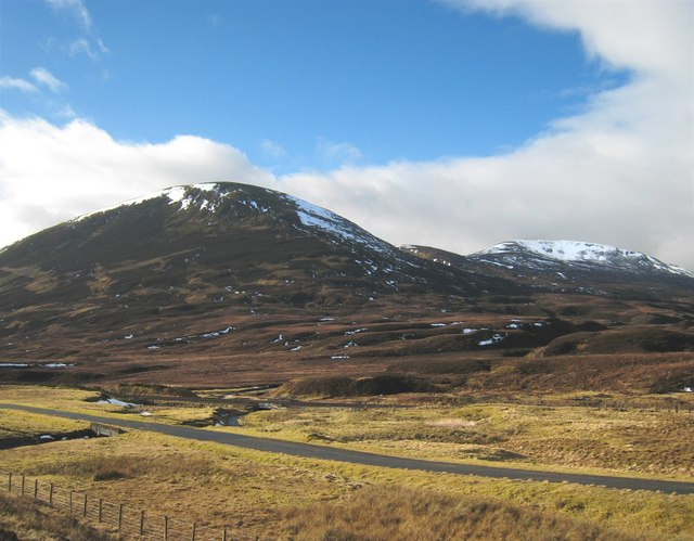 Dalnaspidal Forest Looking south west to the Sow of Atholl (left) and Sgairneach Mhor (right)